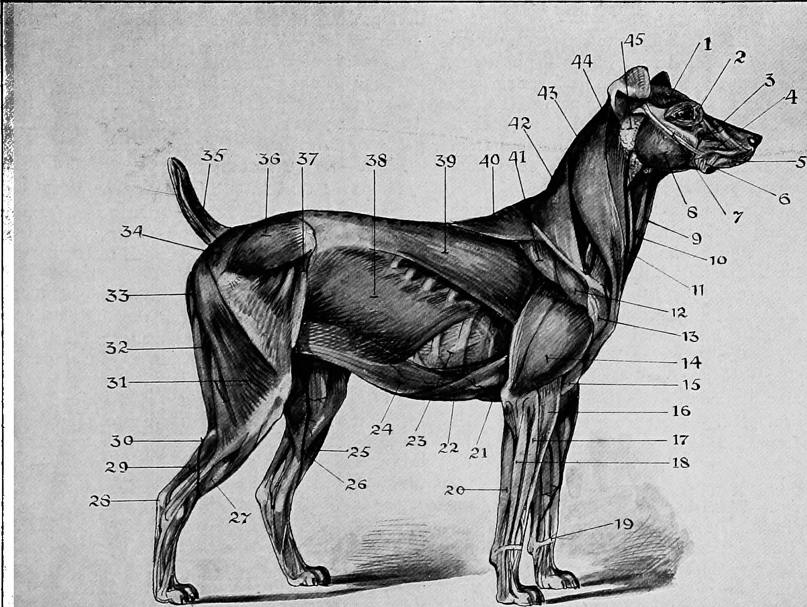 Title: The new book of the dog; a comprehensive natural history of British dogs and their foreign relatives, with chapters on law, breeding, kennel management, and veterinary treatment Year: 1907 (1900s) Authors: Leighton, Robert, 1859- Subjects: Dogs Publisher: London, Paris, New York, Toronto & Melbourne, Cassell and Company, Limited Text Appearing Before Image: 595 Text Appearing After Image: Iv^-g^^"- .--?; â ^,:Jf.yv^tX^^.:jr^-;: THE PRINCIPAL SUPERFICIAL MUSCLES OF A DOG. I. Temporalis or temporal muscle. 23- 2. Orbicularis palpebrarum. 24. 3- Levator labi superioris. 25- 4- Dilator naris. 26. 5- Orbicularis oris. 27. 6. Buccinator. 28. 7- Lygomaticus. 29. 8. Masseter. 30. 9- Sterno hyoidrus. 31- 10. Sterno maxillaris. 32- II. Jugular vein. 33- 12. Scapular deltoid. 34- 13- Acromion deltoid. 35- 14. Triceps. 36- IS- Brachialis. 37 16. Extern, carp, radialis. 38. 17- Extern, digit, communis. 2,9- 18. Extern, carpi ulnaris. 40. 19- Annular ligament. 41. 20. Flexor, carpi ulnaris. 42. 21. Pectoralis major. 43- 22. Pectoralis minor. 44. 45- Parotid gland. Intercostal muscle. Rectus abdominis. Tibialis. Internal saphena vein. Extensor pedis. Point of Hock or Os calcis. Gastrocnemius. External saphena vein. Biceps femoris. Semitendinosus. Semimembranosus. Gluteus maximus. Erector coccygis. Gluteus medius. Tensor vagincs femoris. Great oblique.. Latissimus. Posterior trapezius. Infraspinatus. Anterior trapezius. Cephalo-humeral. Mastoideus.